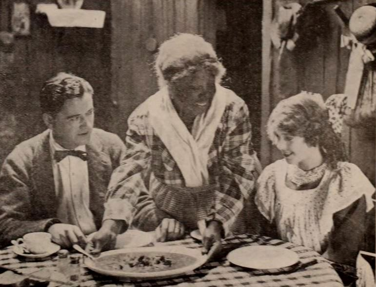 Still from the American drama film In Walked Mary (1920) with Thomas Carrigan, Frances Miller (credited as Frances M. Grant), and June Caprice, on page 59 of the March 13, 1920 Exhibitors Herald.